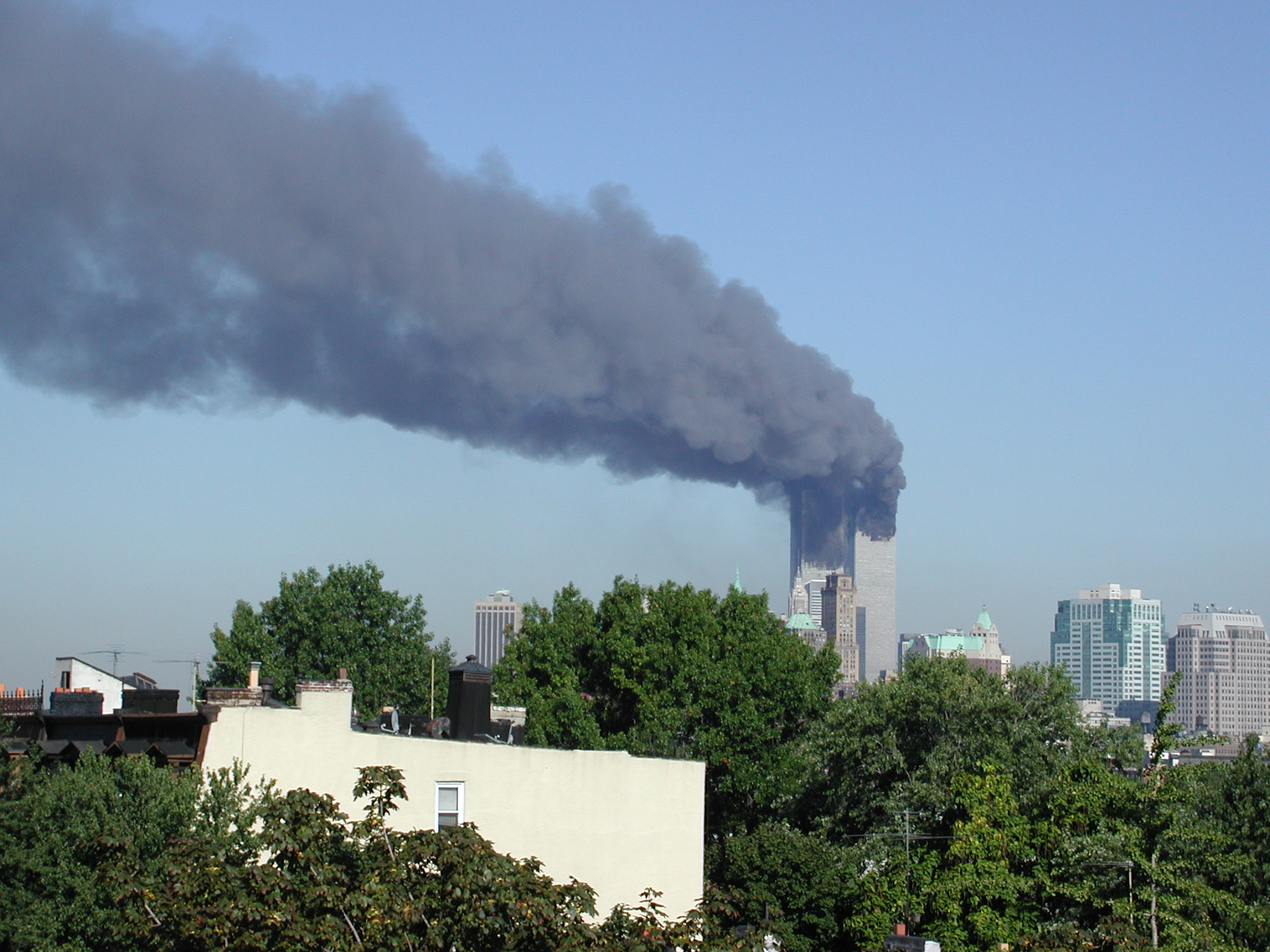 Taken from a rooftop in Brooklyn and from the Brooklyn waterfront.